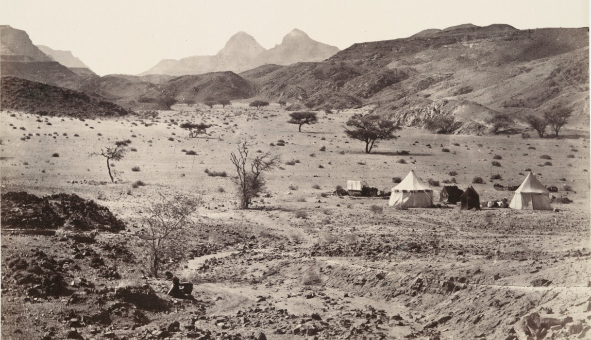 A camping-place in the wilderness of Sinai